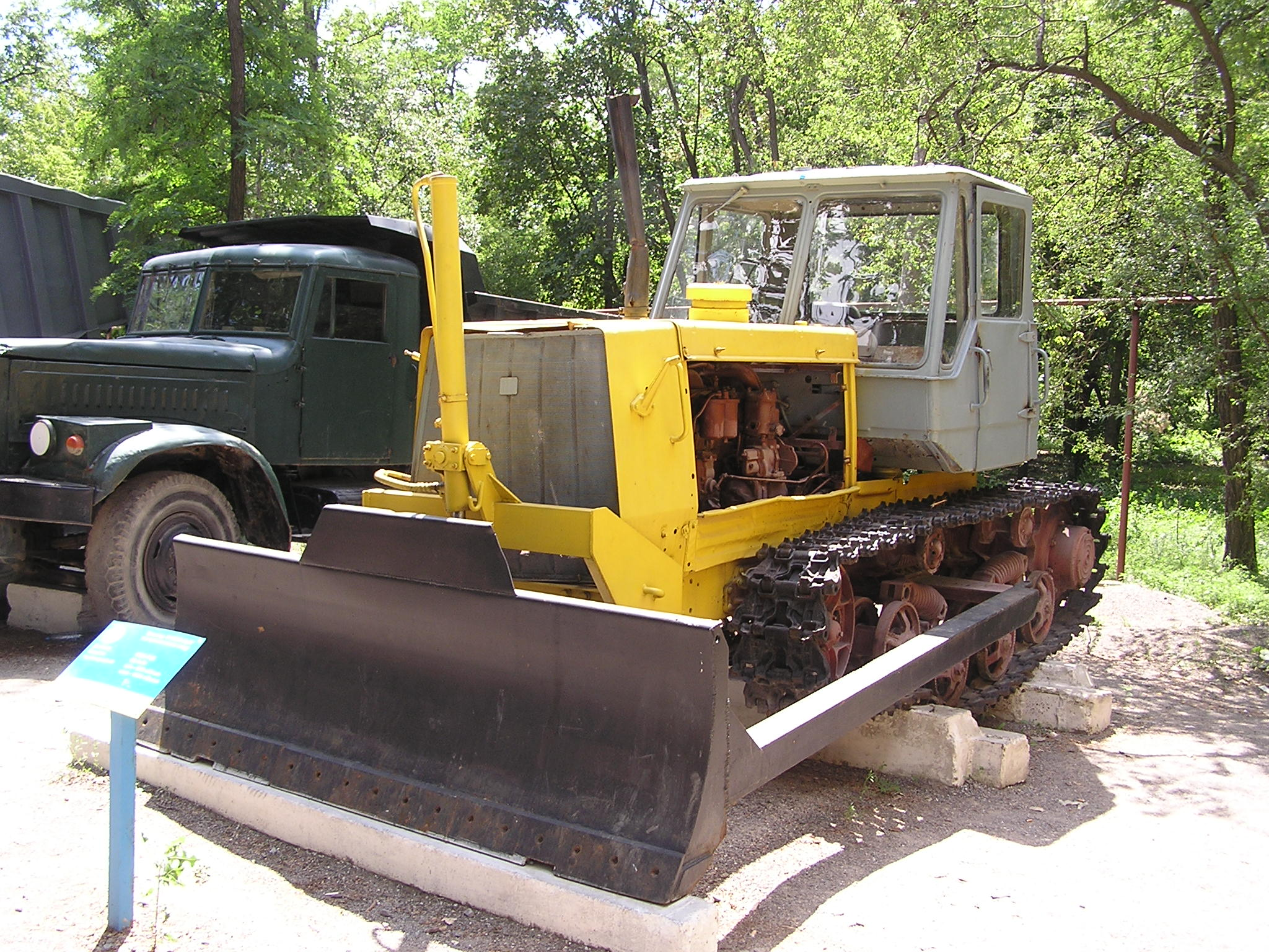 T-150A-0,5G bulldozer in Museum of Dokuchaevsk flux-dolomite сombine plant